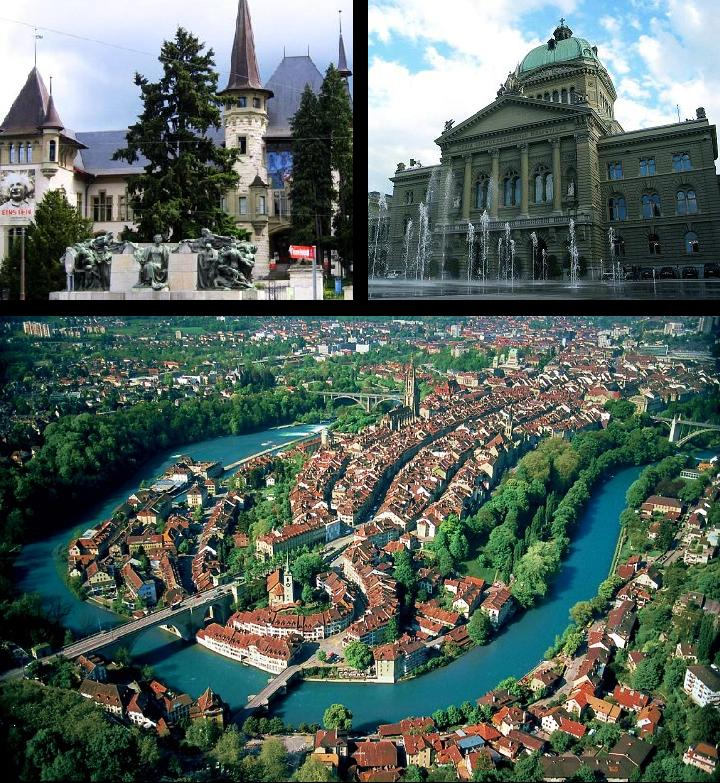 Montage for the Berne article on Wikipedia.